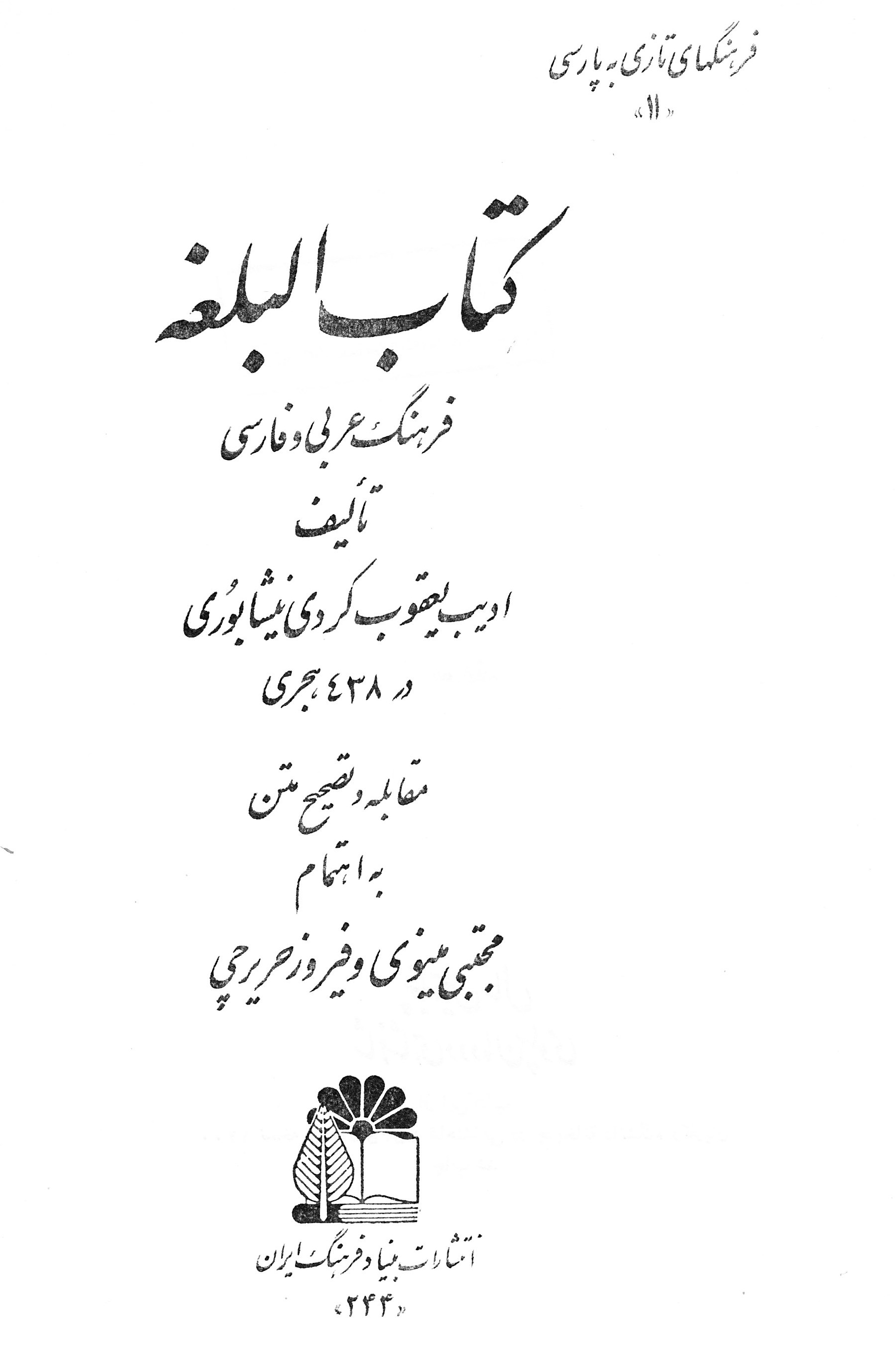 Titel Page